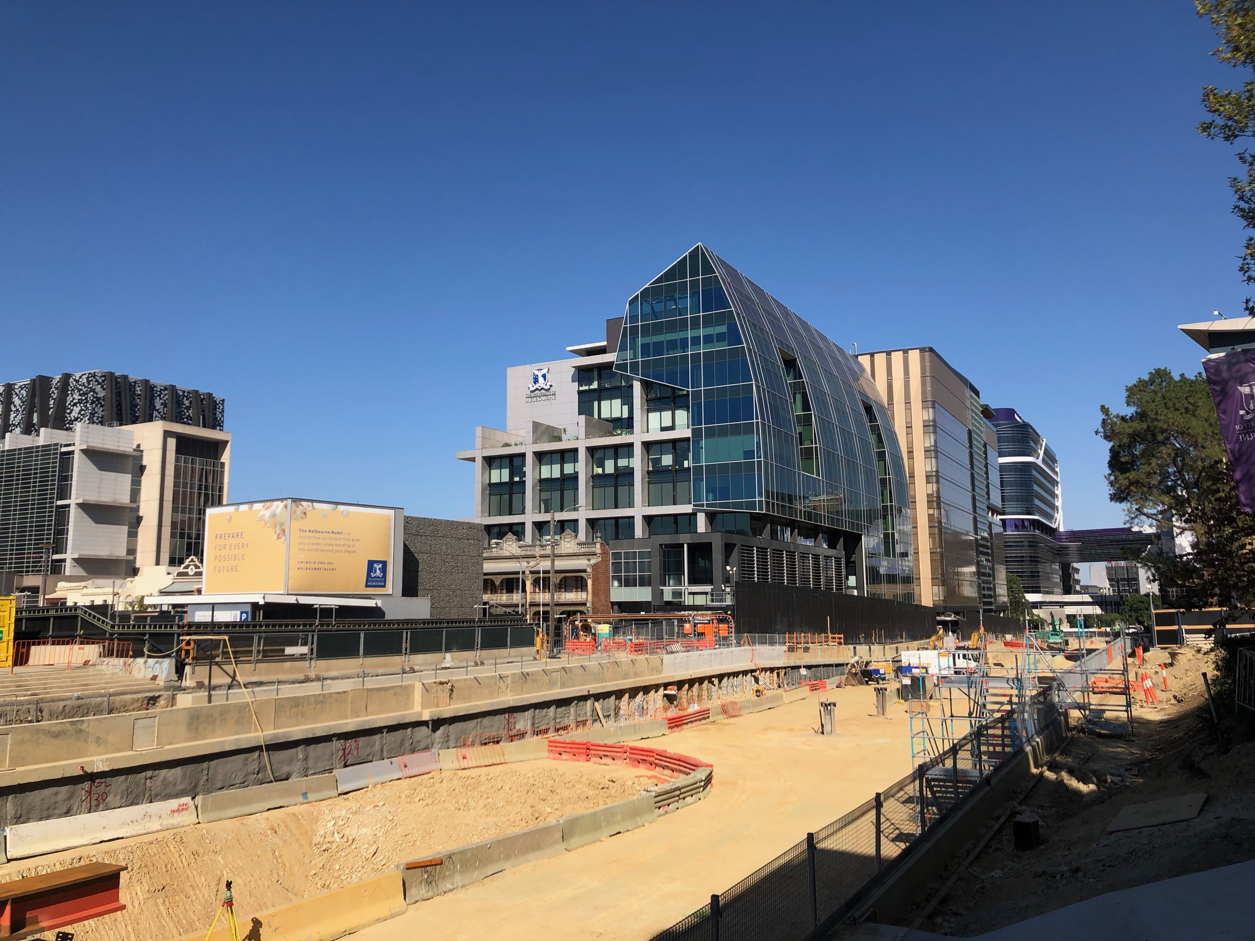 Photo of Parkville station construction in Melbourne as of February 2018